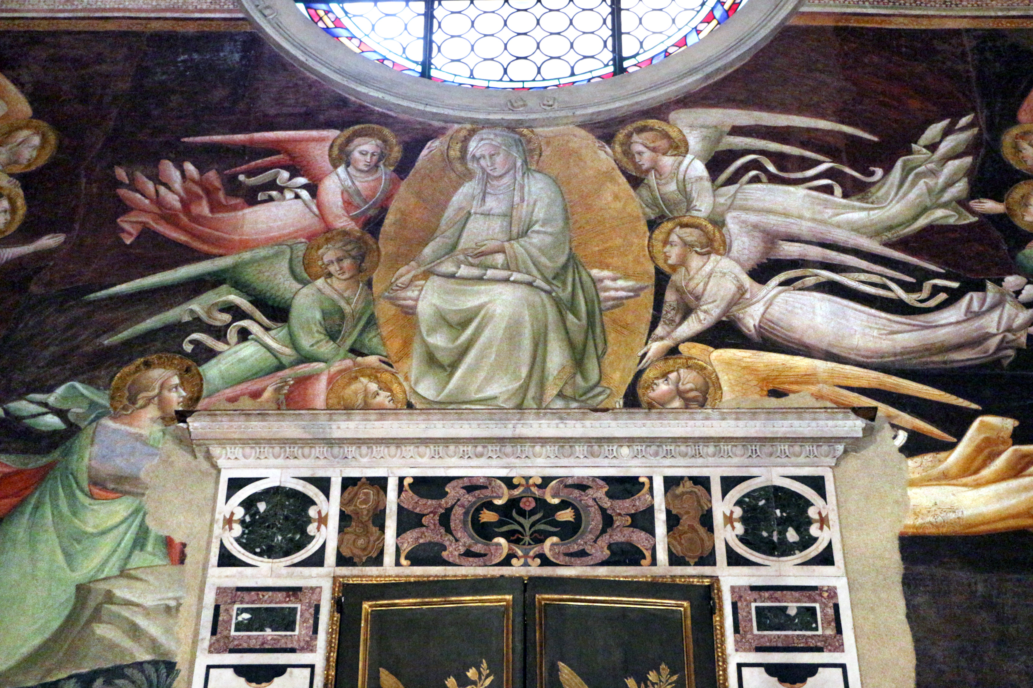 Cappella del Sacro Cingolo - Frescos by Agnolo Gaddi